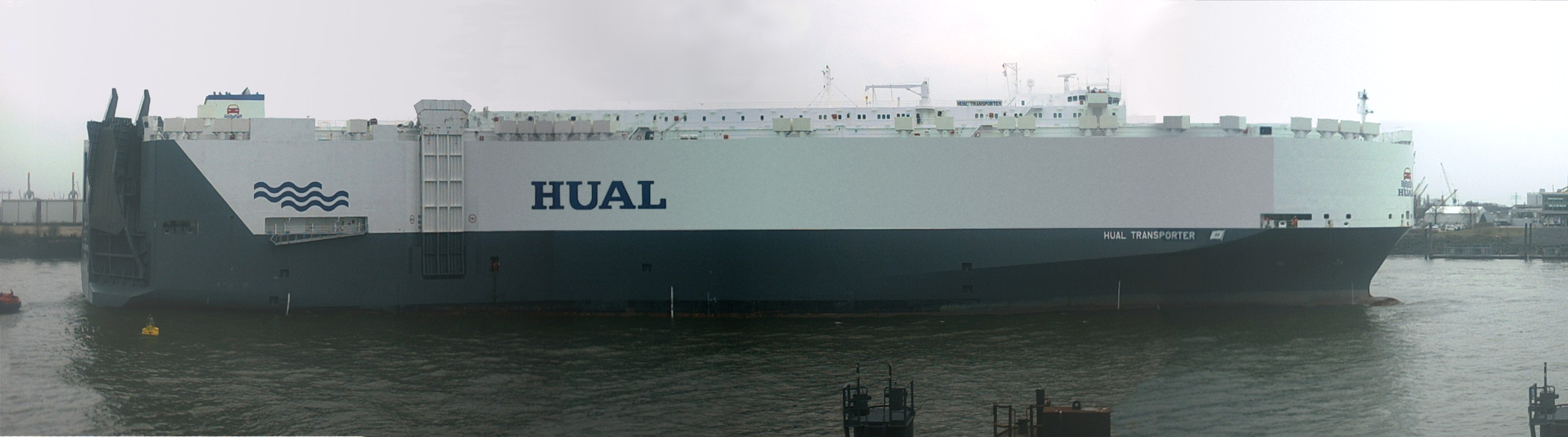 The HUAL Transporter leaving Hamburg Harbor in March 2004